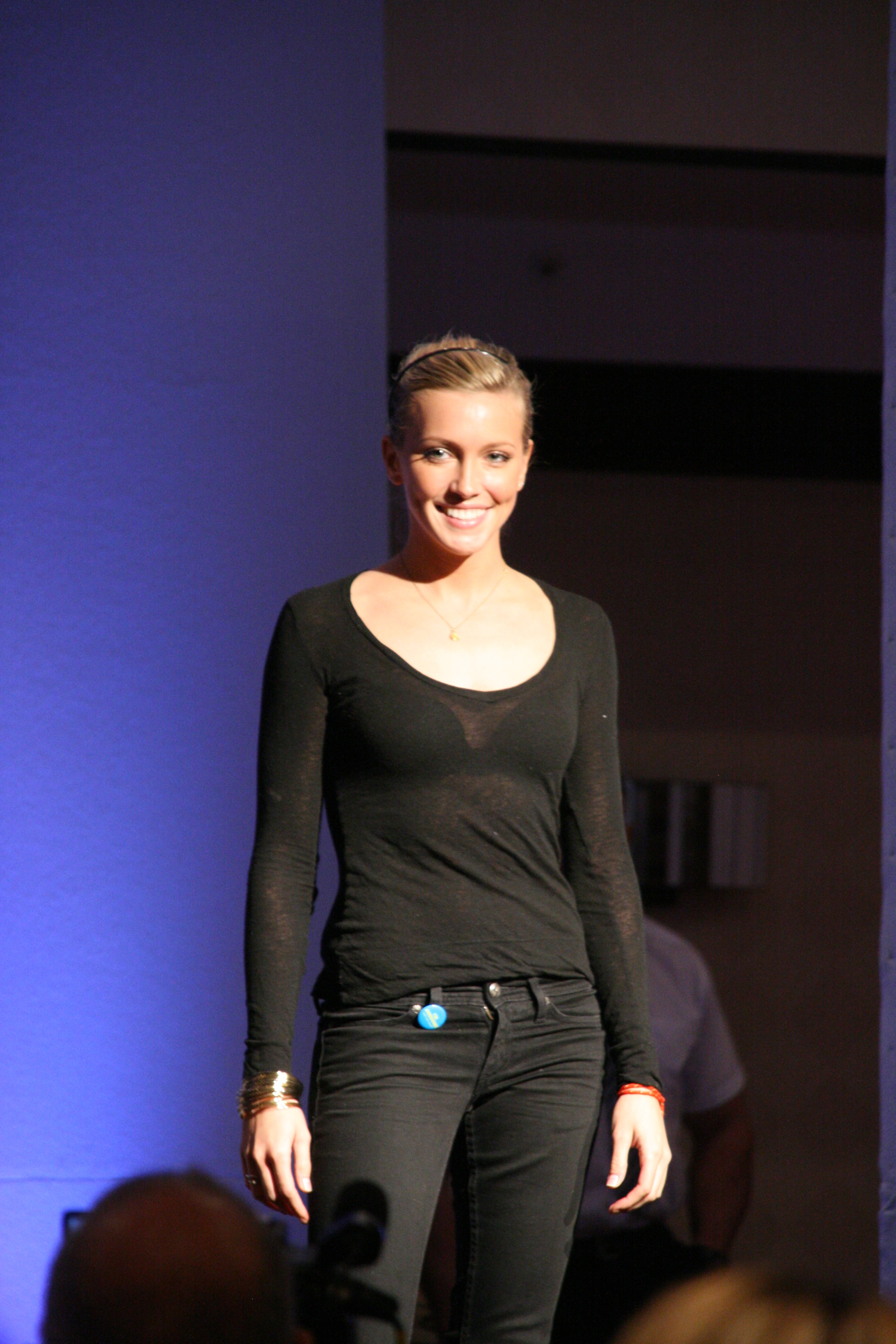 Actress Katie Cassidy